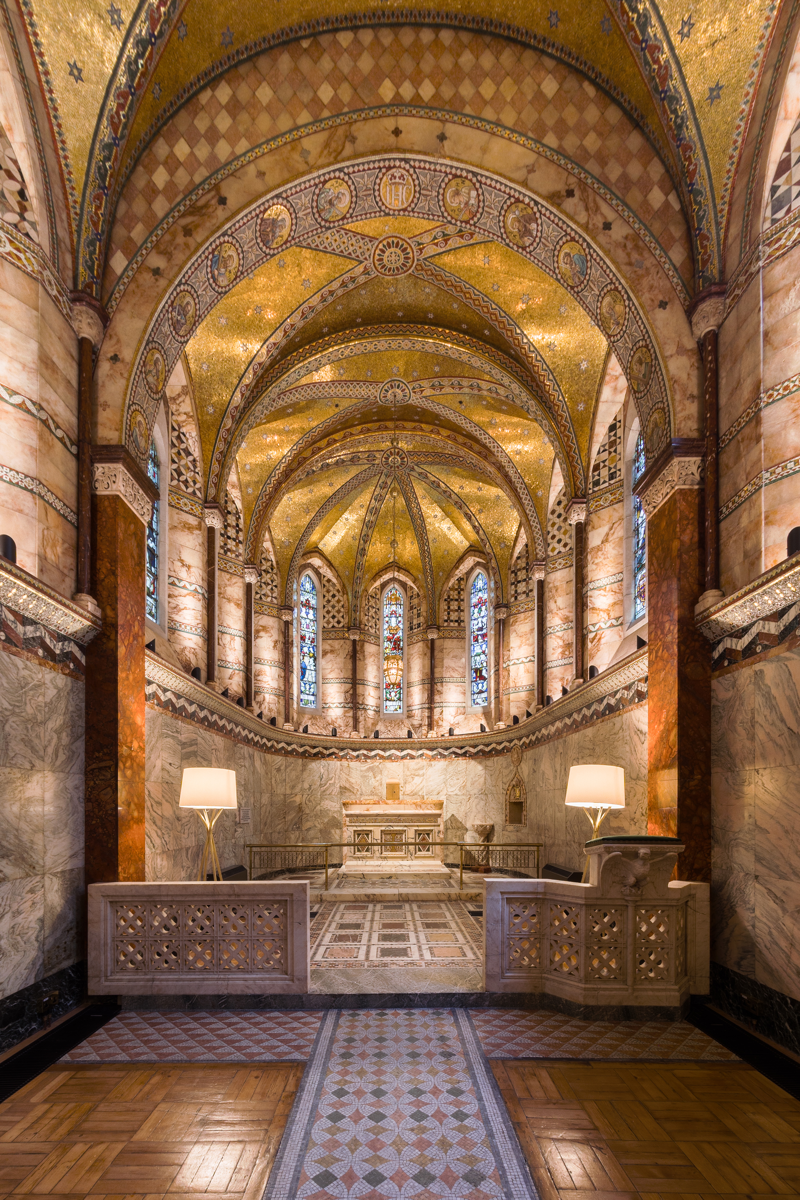 Fitzrovia Chapel Wikidata has entry Q17549757 with data related to this item.